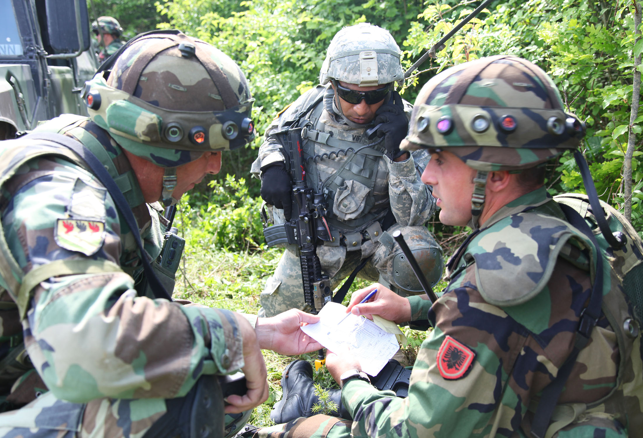 Soldiers from the Albanian Army work together with Soldiers from U.S. Army Europe’s 2nd Cavalry Regiment as they discuss operations and tactics in an assault training exercise during the Immediate Response 2012 (IR12) training event held in Slunj, Croatia on Wednesday, June 6, 2012. IR12 is a multinational tactical field training exercise that will involve more than 700 personnel primarily from the U.S. Army Europe’s 2nd Cavalry Regiment and Croatian armed forces, with contingents from Albania, Bosnia-Herzegovina, Montenegro and Slovenia. Macedonia and Serbia will send observers to the exercise. The exercise is a part of USEUCOM's joint training and exercise program designed to enhance joint and combined interoperability between the U.S. Army, U.S. Air Force, Croatian Armed Forces and partner nations, and will help prepare participants to operate successfully in a joint, multinational, interagency, integrated environment. (U.S. Army photo by SPC Lorenzo Ware/Released)